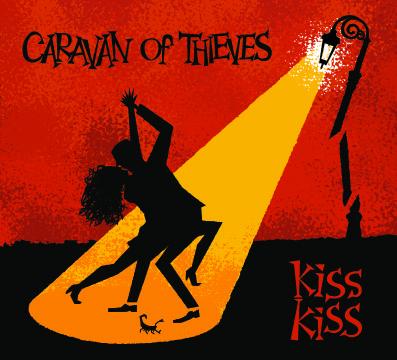 Kiss Kiss